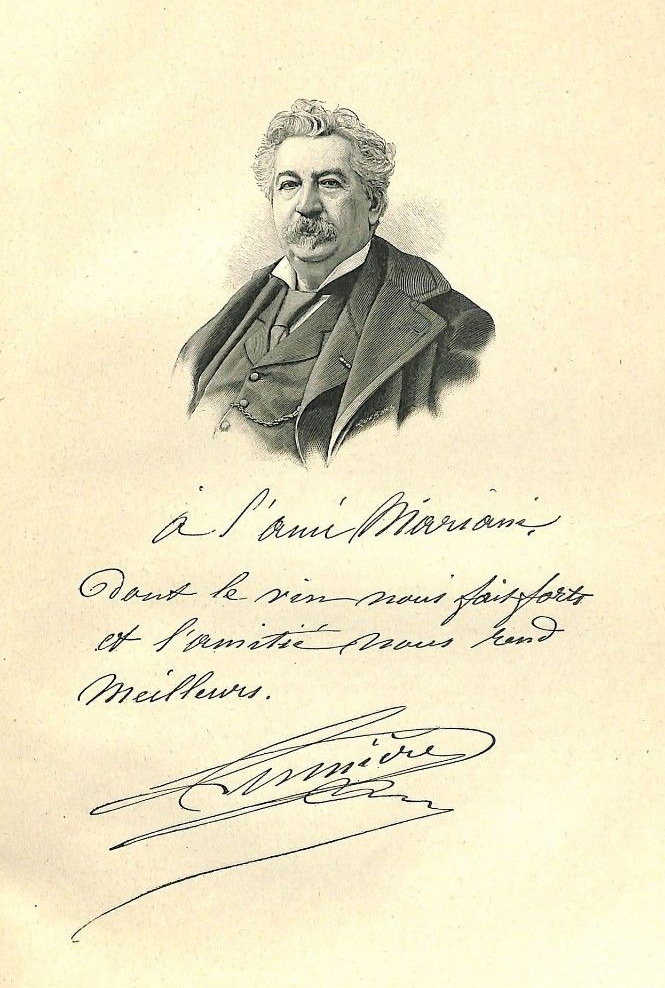 French pioneer of photography Antoine Lumière (1840-1911)